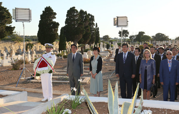 Prime Minister Shinzō Abe remembering Japanese soldiers who died onboard the Sakaki.